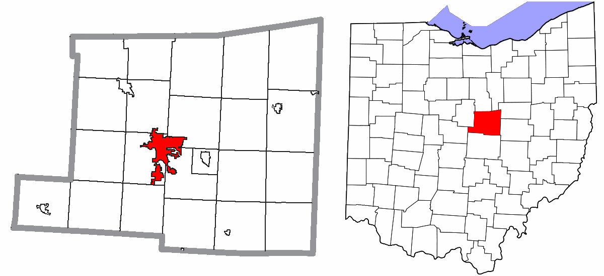 Map highlighting City of Mount Vernon, Knox County, Ohio, United States.